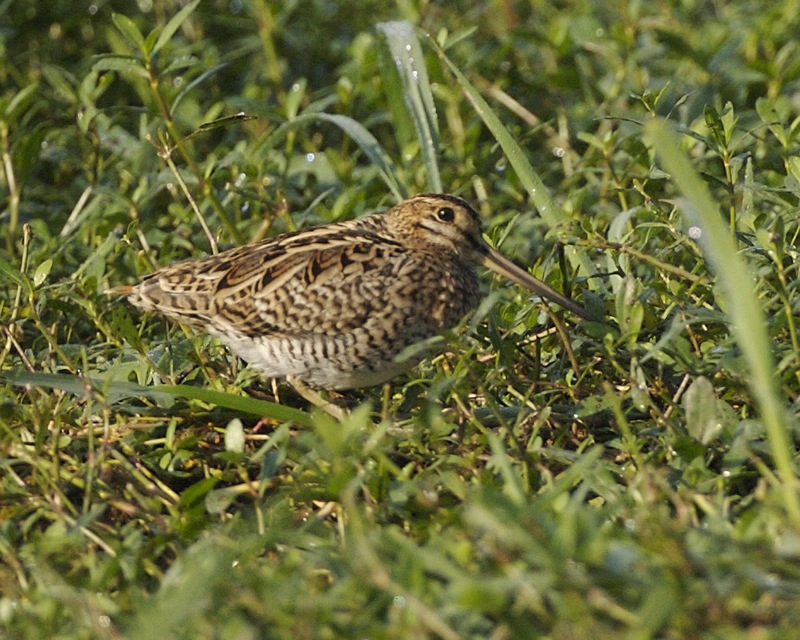 Pintail Snipe (Gallinago stenura) or Swinhoe's Snipe (Gallinago megala) 11th. December 2007, Jahangir University campus, Dhaka, Bangladesh _Q0S2540